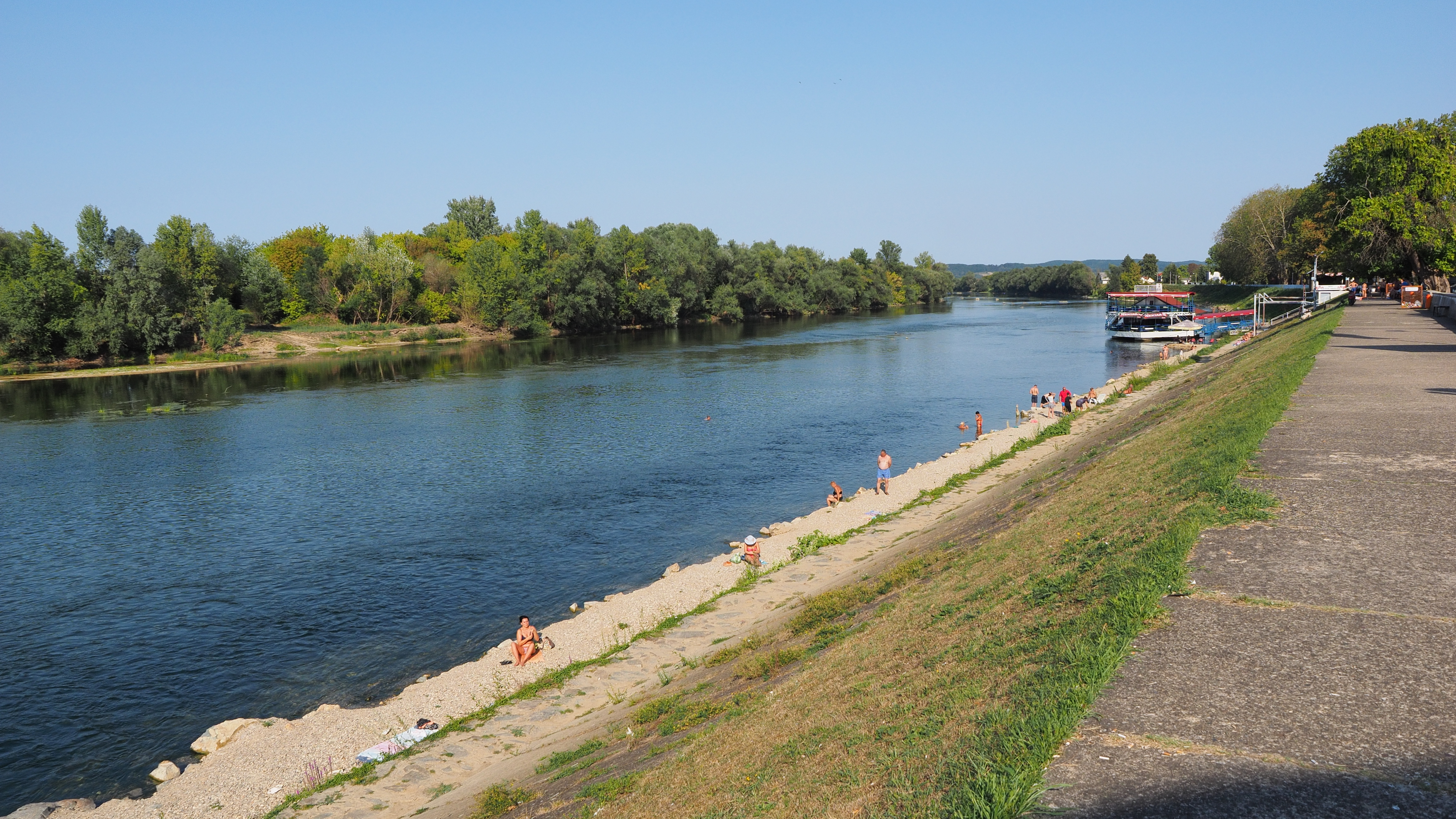 Una river at Kozarska Dubica, Republika Srpska Српски (ћирилица): Парк природе: река Уна код Козарске Дубице, Република Српска Парк природе Ријека Уна, Костајница, К.Дубица, Нови Град ID добра: PPP035 This image was uploaded as part of Trace of Soul 2017. This photograph was taken with an Olympus E-M1